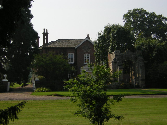 Kettlethorpe Hall. What remains of the great house of the Swynfords. Katherine Swynford was mistress and third wife of John of Gaunt, her sister Philippa married Geoffrey Chaucer. All that remains of the great medieval house is the gateway between the church and Hall.